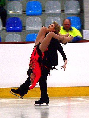 Ksenia Antonova and Roman Mylnikov during their original dance at the 2006 Junior Grand Prix event in The Hague, Netherlands